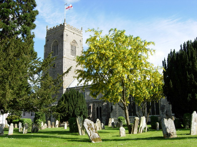 Framlingham Church. Parts of this church date from the 12th century, but the majority was built between 1350 and 1550. It stands in a prominent position between the town centre and the castle.